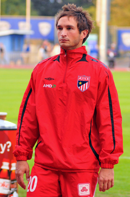 Photo of soccer player, Ryan McMahen. Wilson Wong photo.